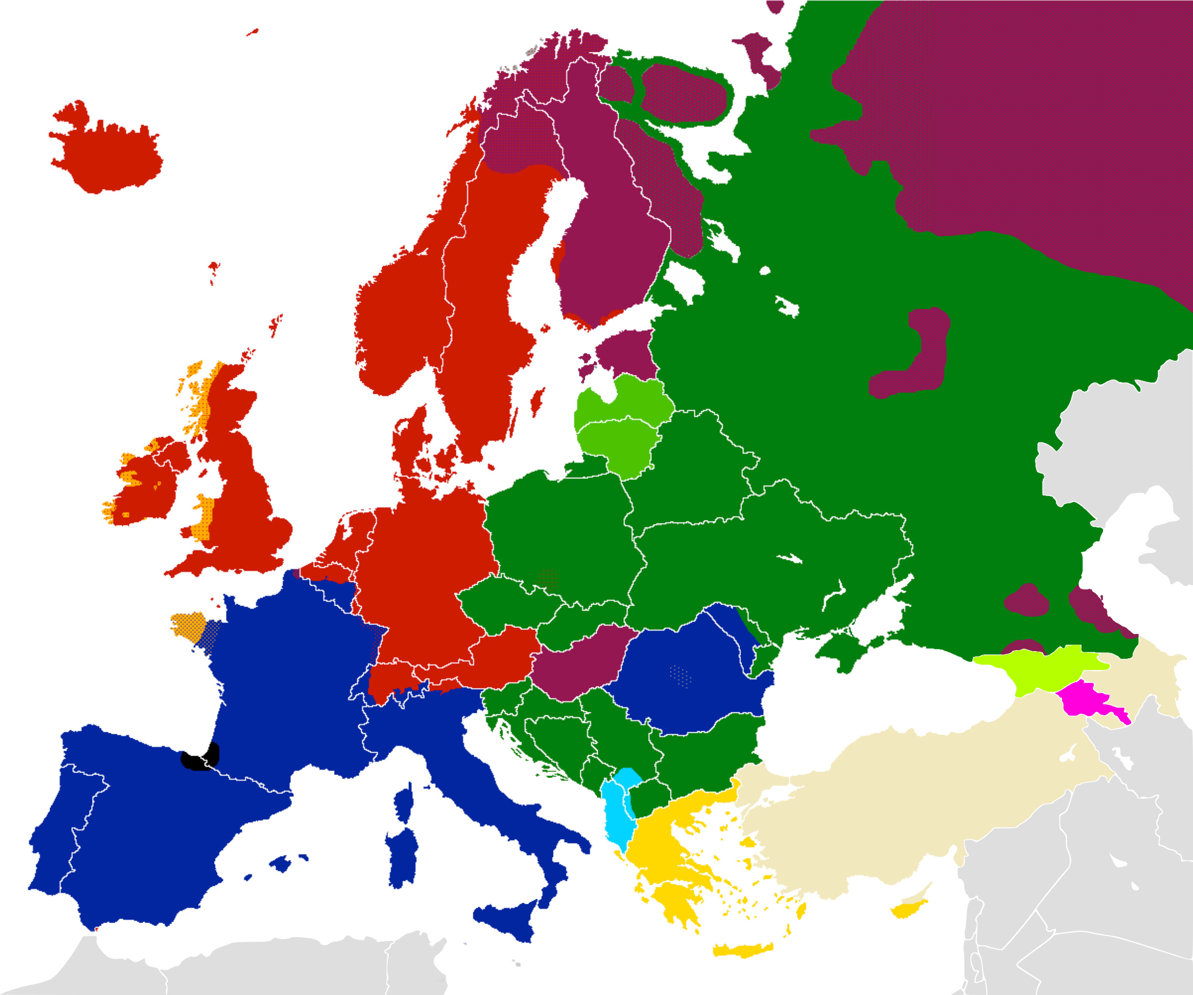 Language families in Europe, painted in different colours